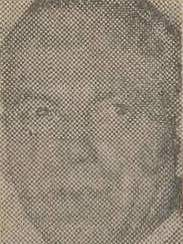 Ettela'at newspaper, No.14739, dated Tir 1, 1354 (22 June 1975), page 4.